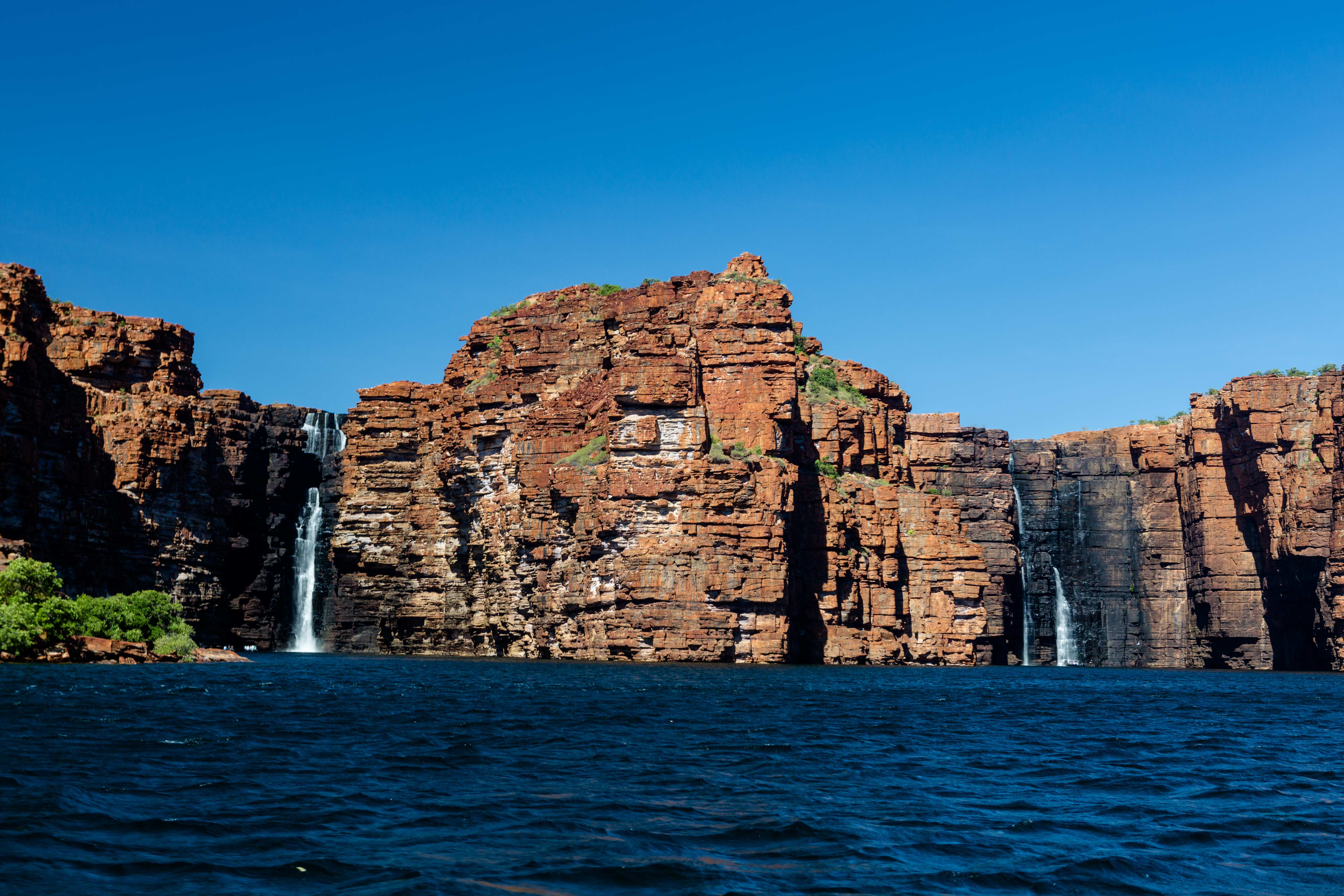 King George Falls, Mitchell Plateau, Kimberley region, Western Australia.